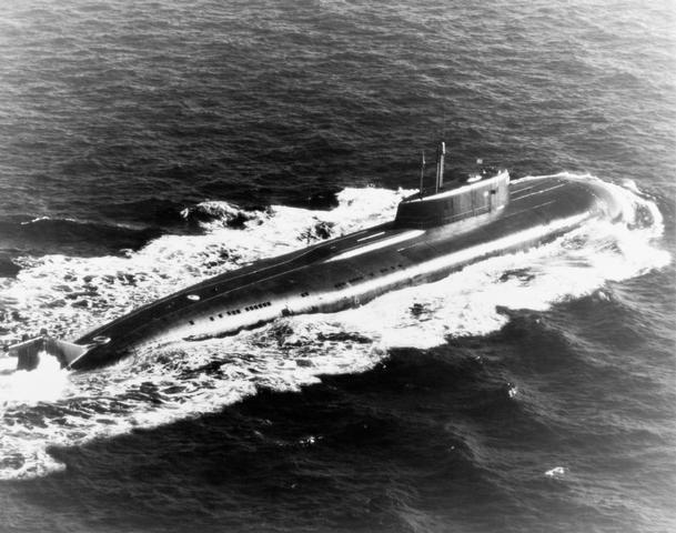 The Russian Navy nuclear-powered cruise missile submarine OMSK (K-186), which became the fifth OSCAR-II class unit to complete a transfer to the Russian Pacific Fleet, as seen from a Patrol Squadron Nine aircraft. Photograph taken i Bering Sea. This is not K-141 Kursk, but her sistership K-186 Omsk.